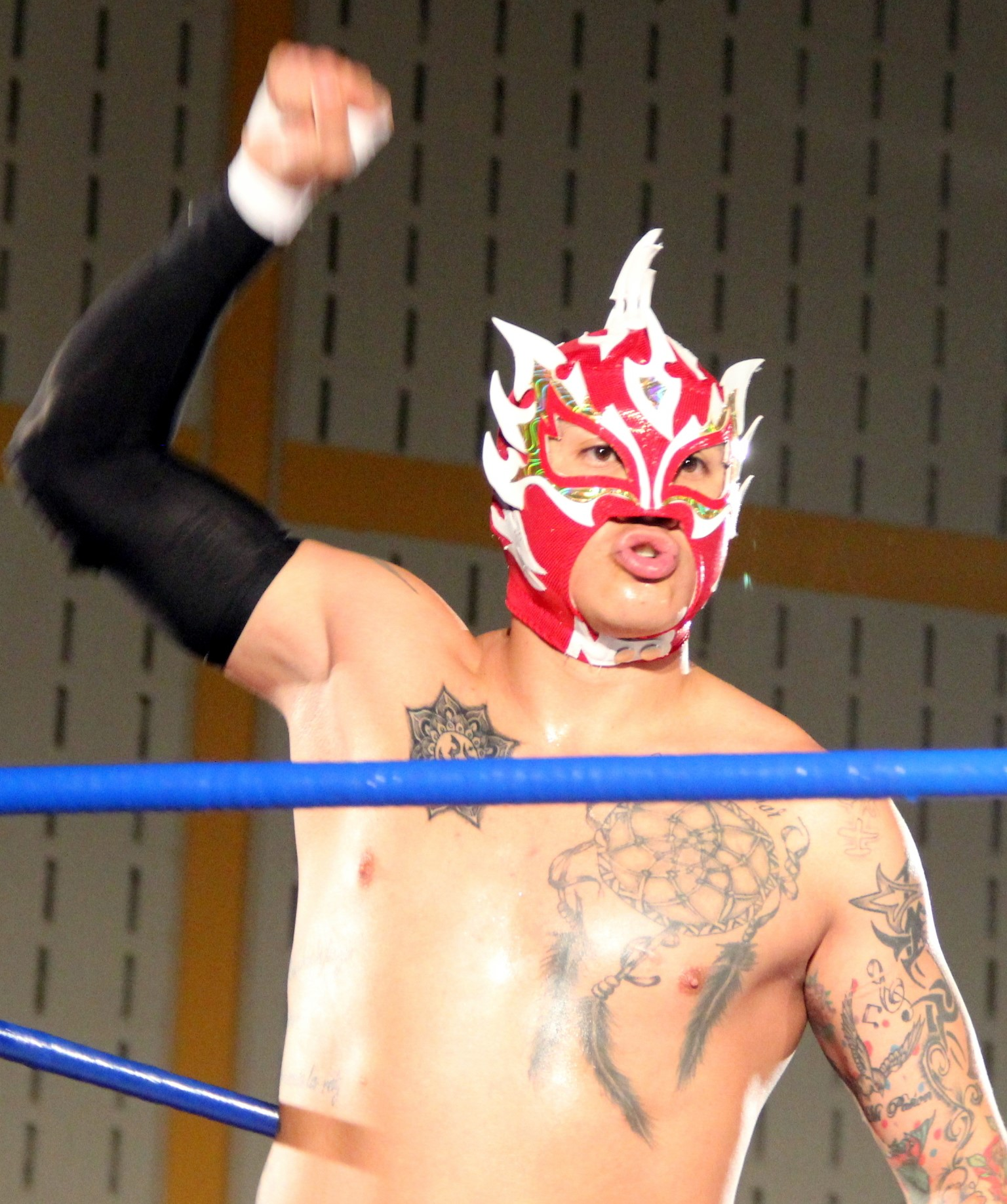 Fenix at Chikara's King of Trios in 2015.